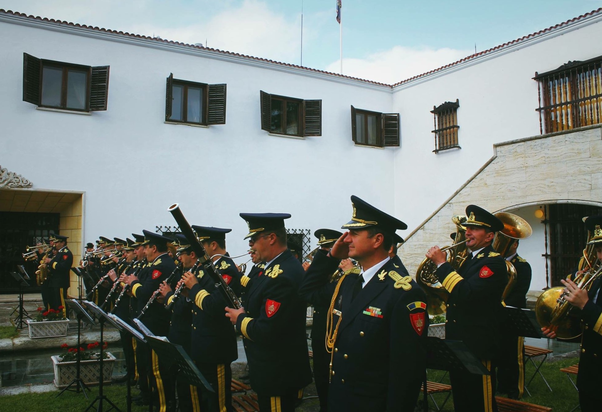 Air Force Regimant band playing the national anthem of the kingdom of Romania on the royal national day